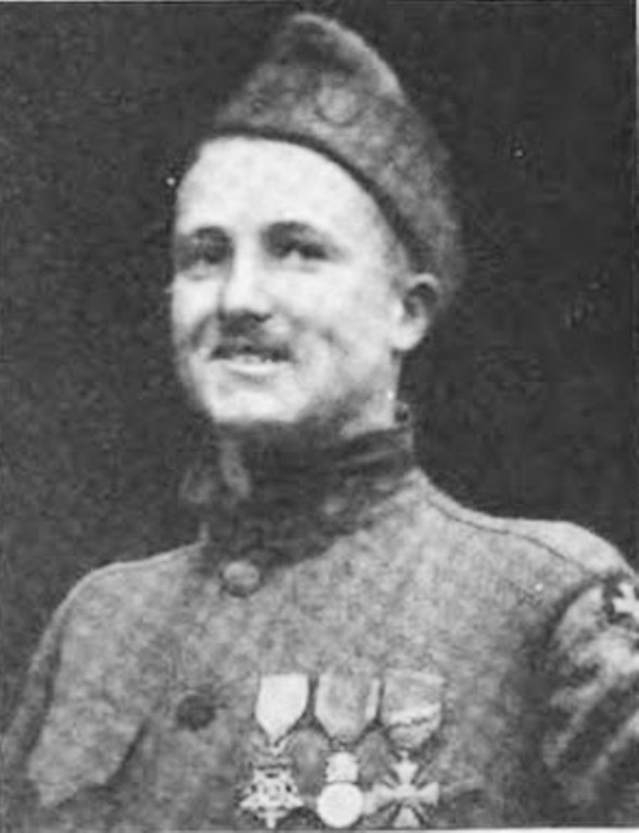 WWI Medal of Honor recipient Ralyn M. Hill. He wears the Medal of Honor, the French Médaille militaire and the French Croix de guerre with bronze palm.